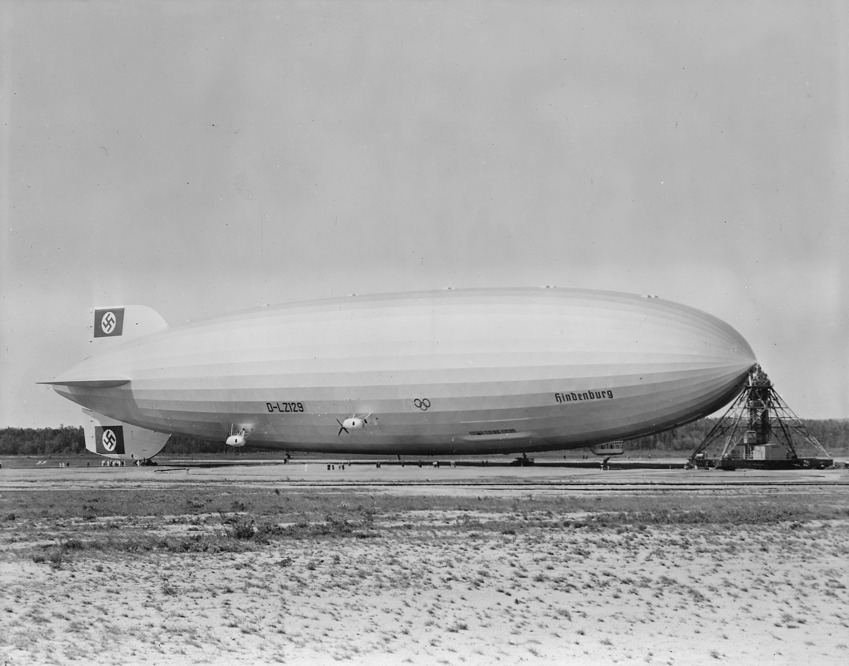 The LZ-129 Hindenburg, the famous Zeppelin, at Lakehurst Naval Air Station in 1936.